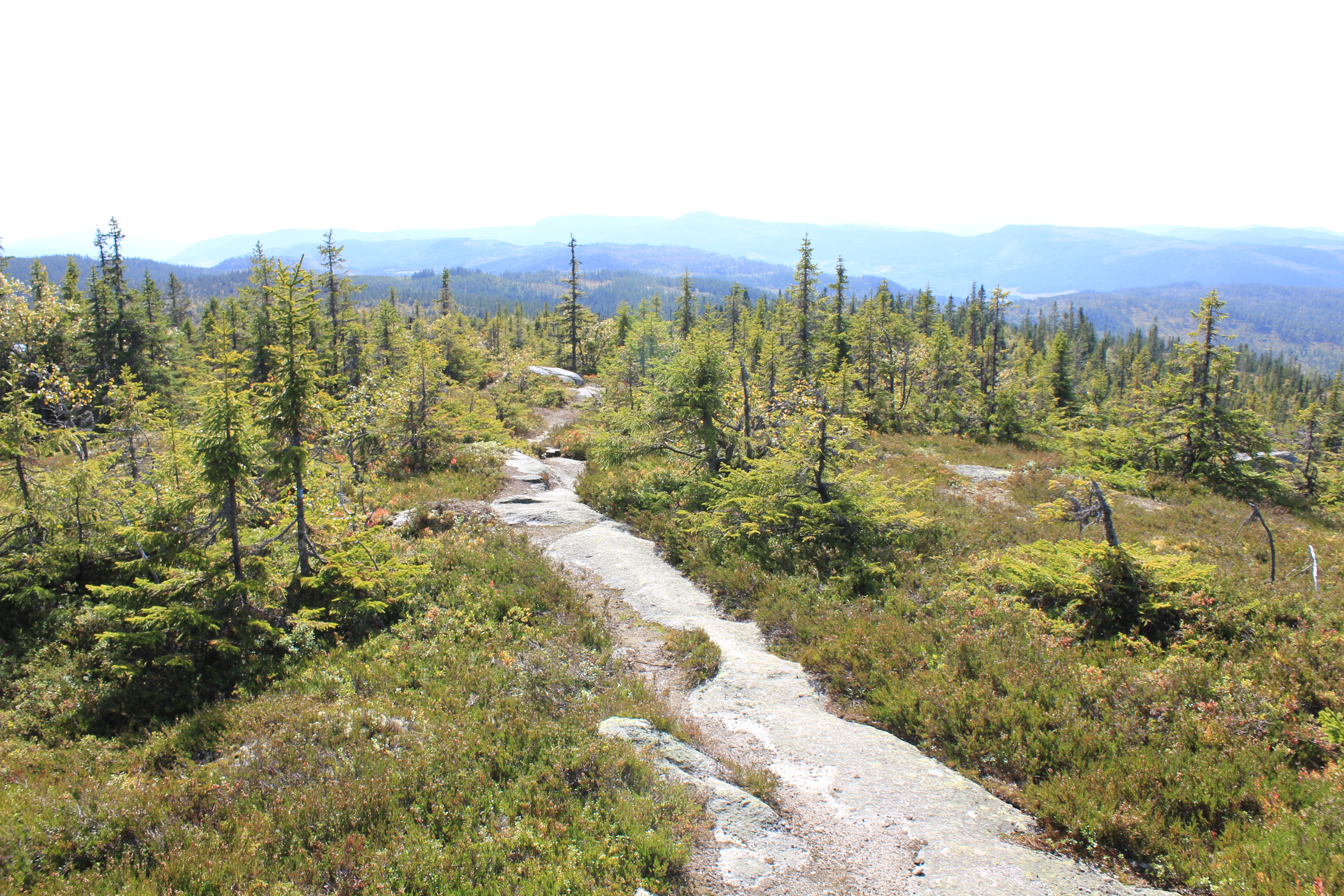 View from Tjuvåsen at Totenåsen Hills, toward Hurdal. From Østre Toten, Oppland, Norway.